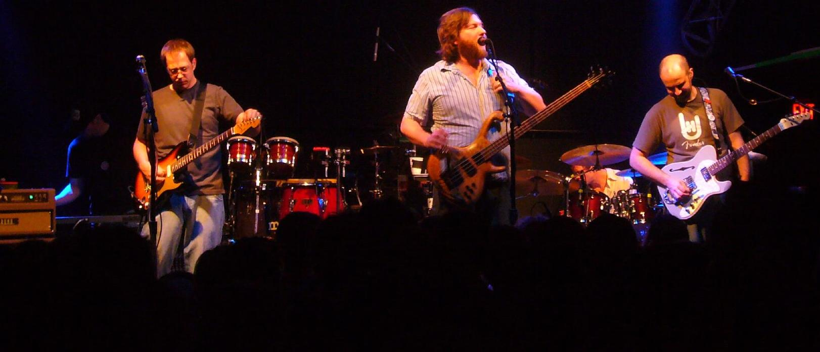 The band moe. tuning between songs on March 8, 2007. (Cropped)